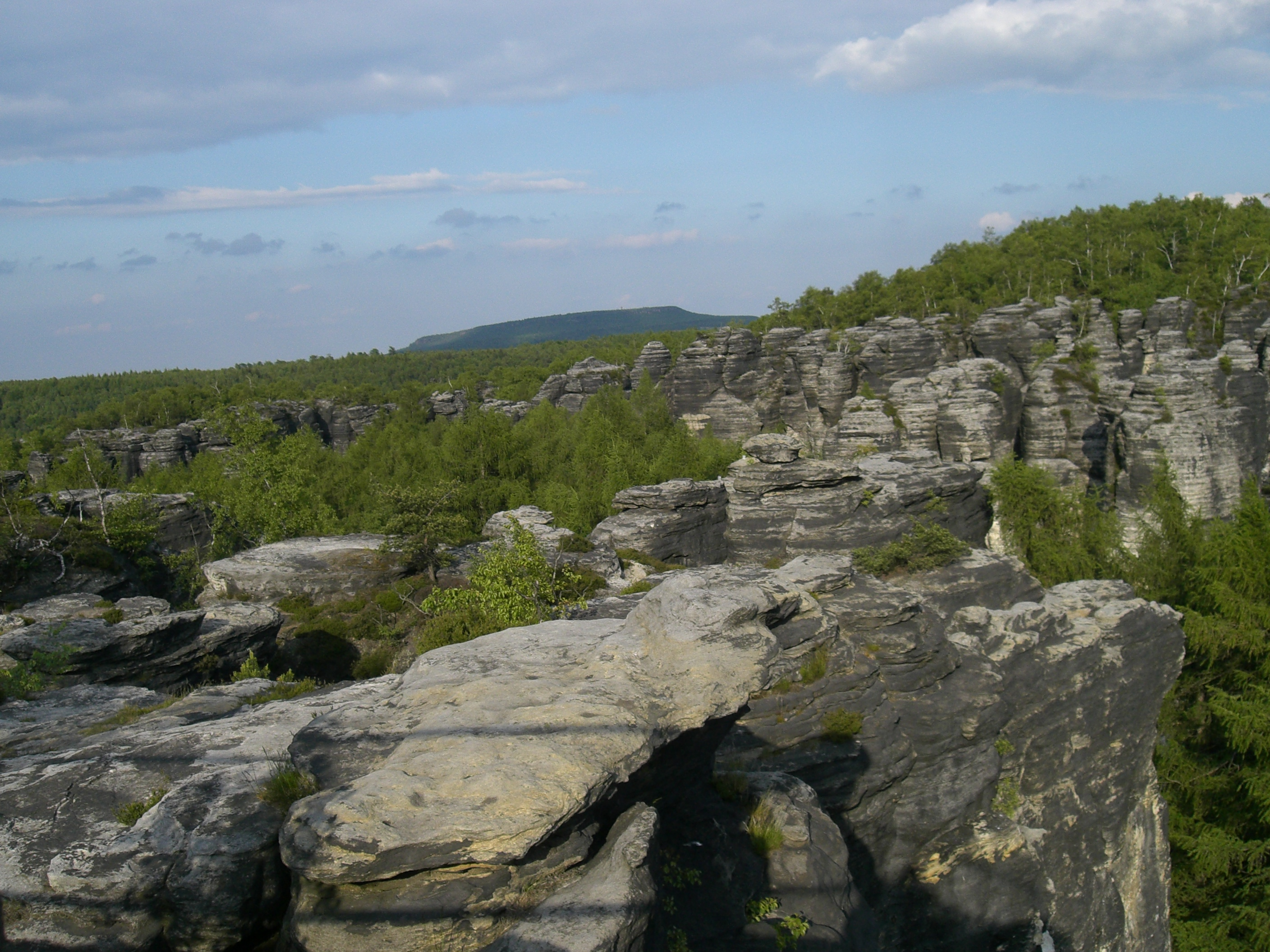 Kladská pond near Mariánské Lázně, Czech Republic. Around 50°1'34.92"N,12°40'30.55"E